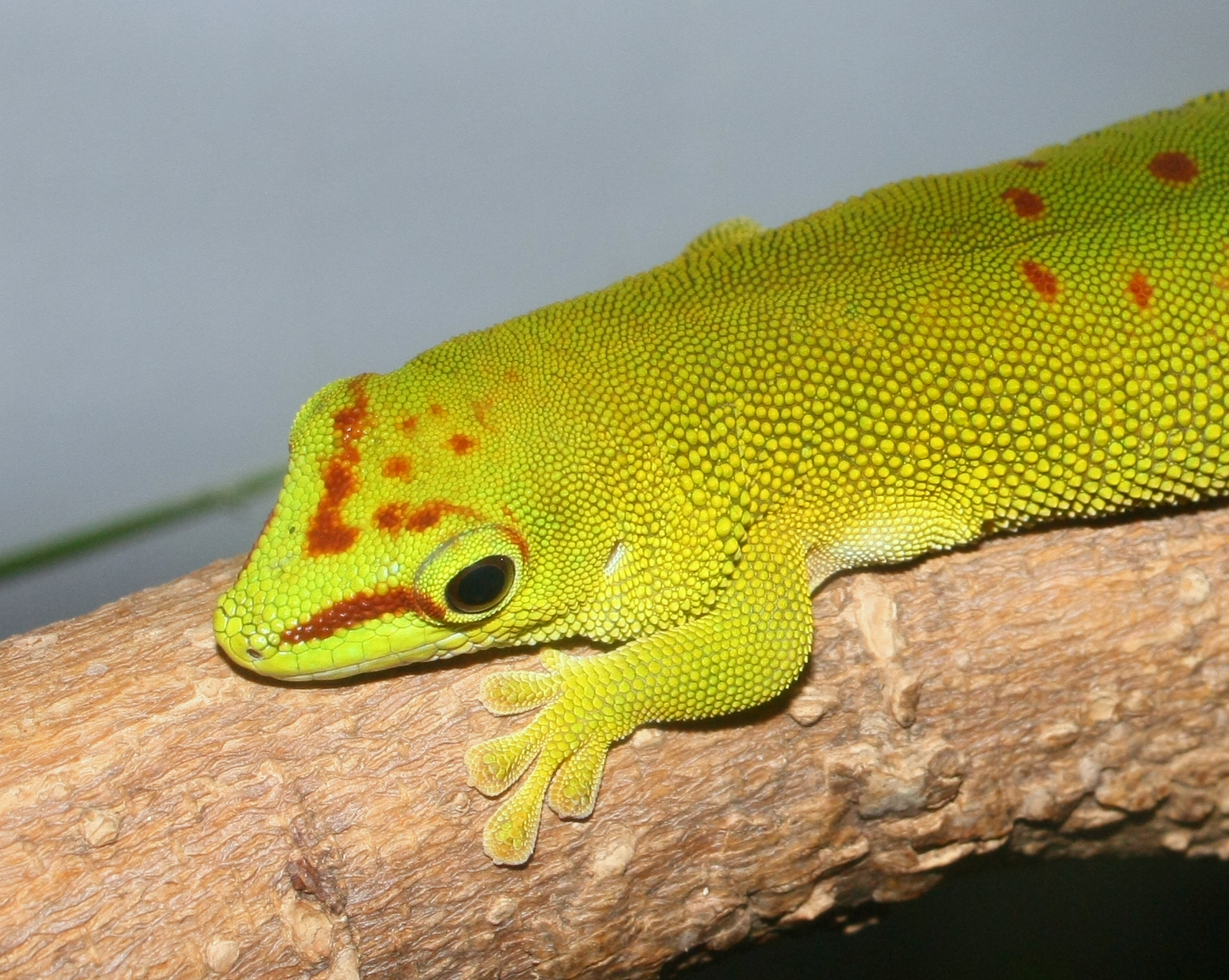 Madagascar giant day gecko (Phelsuma grandis), Cincinnati Zoo and Botanical Garden